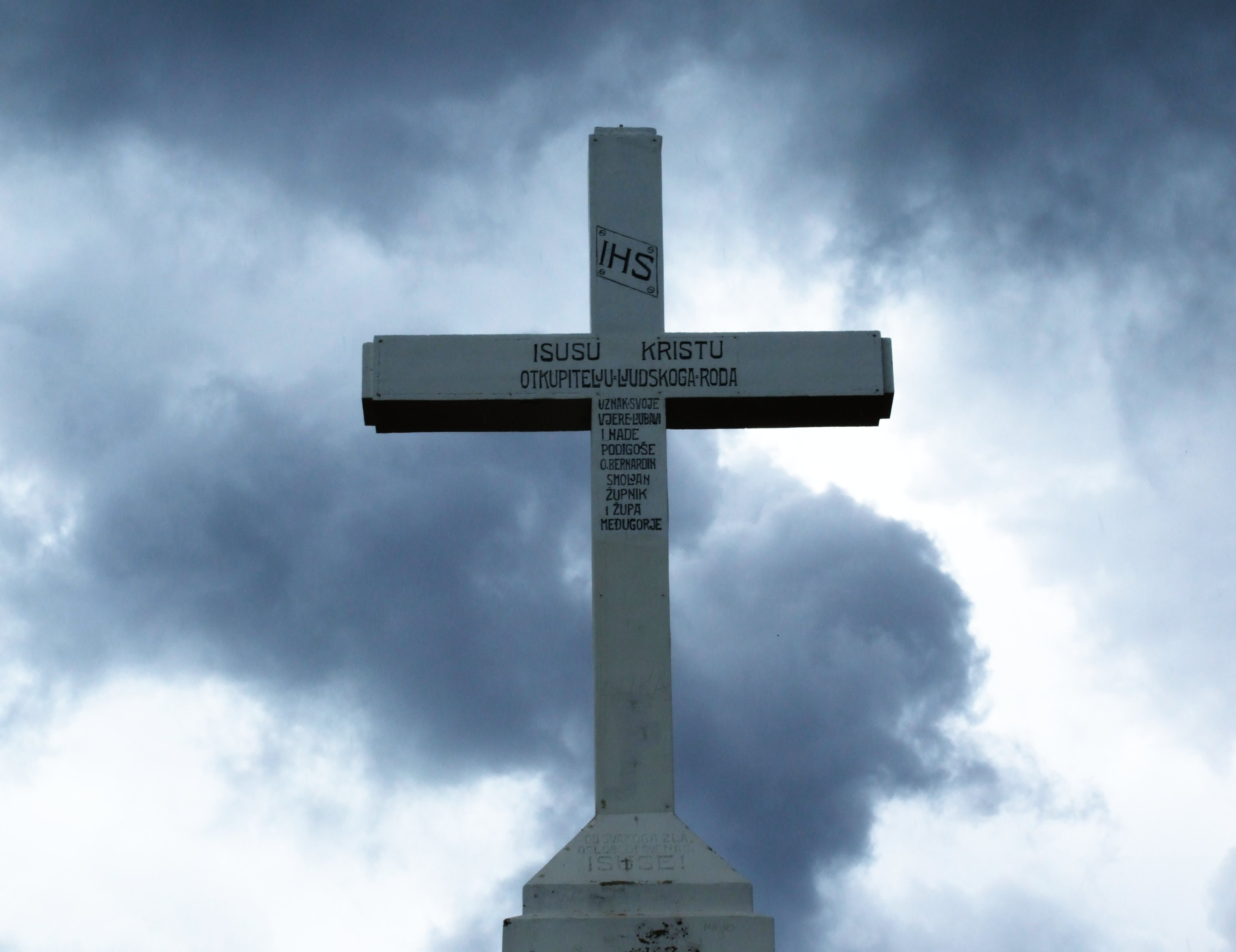 medjugorje bosnia herzegovina apparitions virgin mary roman catholic pension pansion porta travel creative commons cc gnuckx panoramio flickr map geotag wiki wikipedia